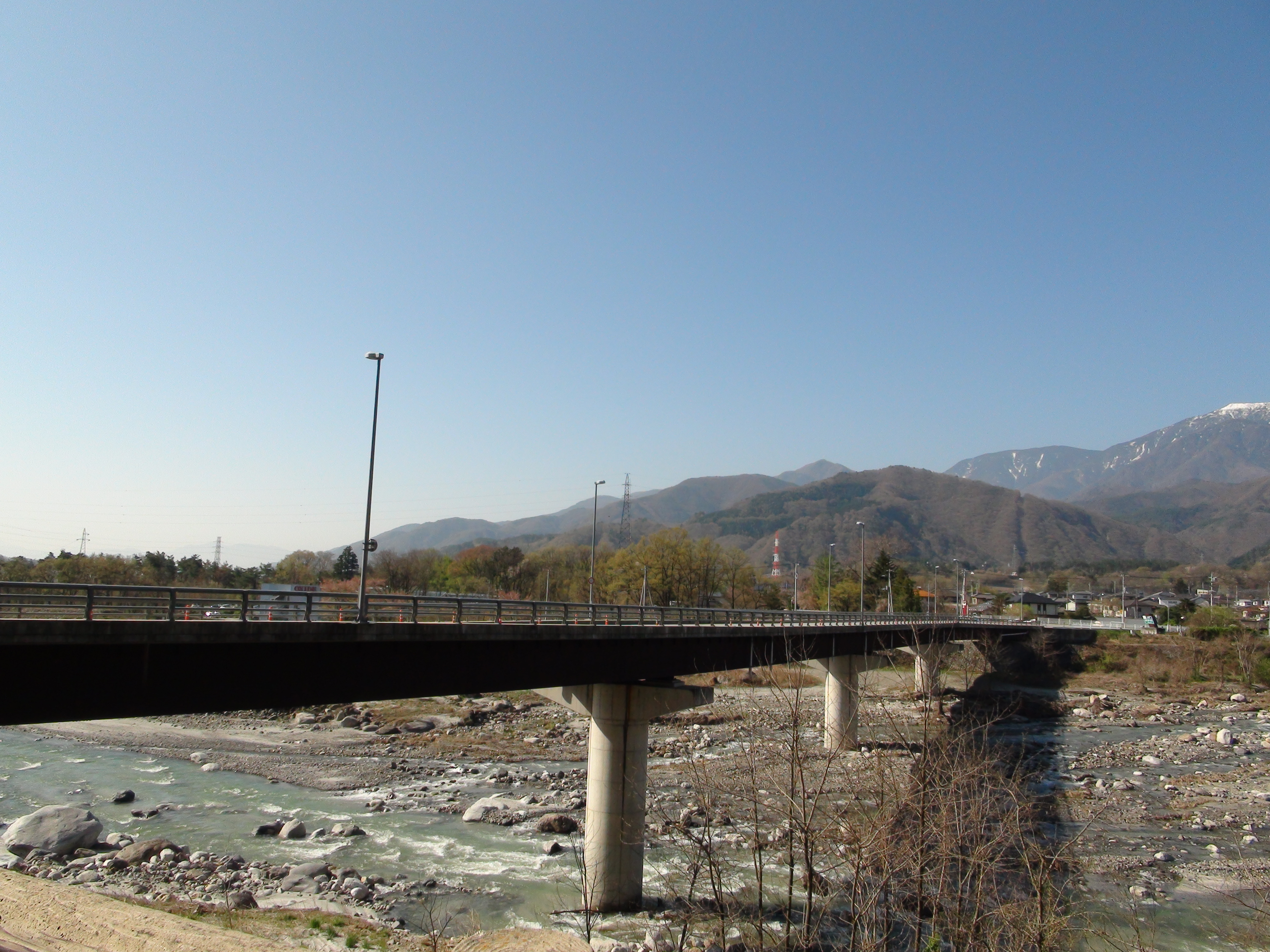 Kamanashigawa Bridge in Yamanashi prefectural road